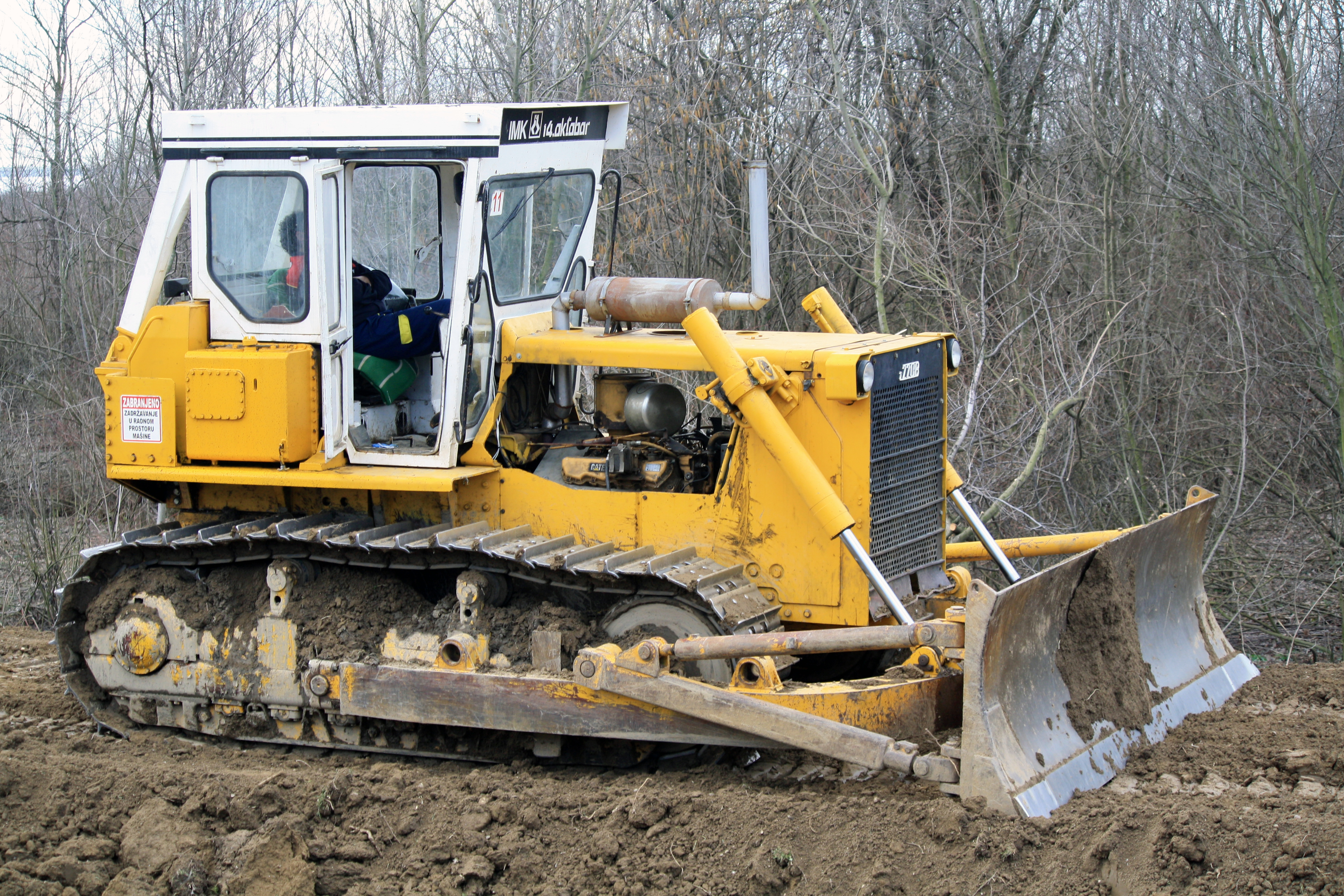 IMK 14. Oktobar TG-220B bulldozer.